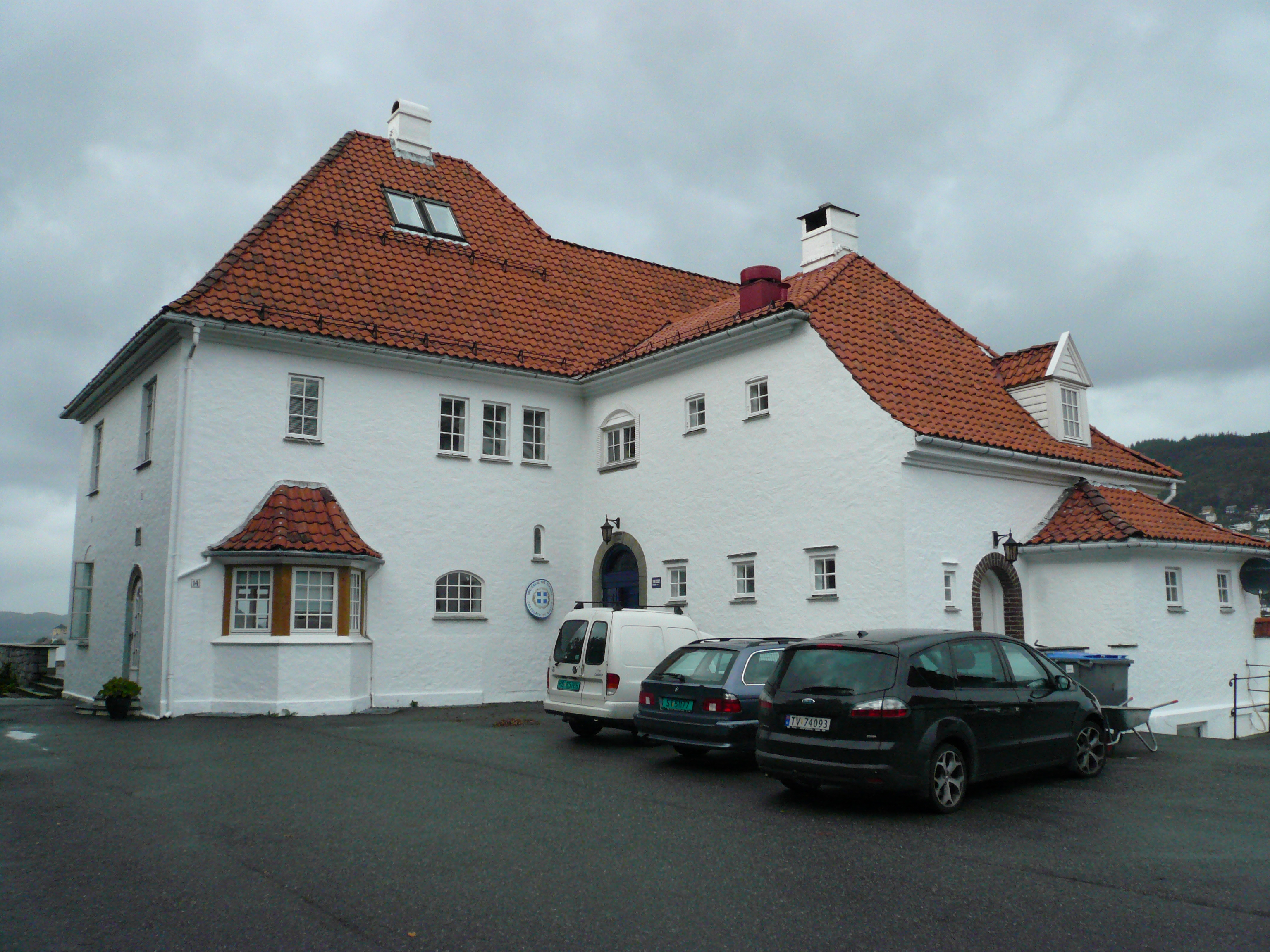 Architect Ole Landmark, Clementsgaard, Kronstadhøyden, Bergen, Norway. Built in 1916 for Clement Johnsen.